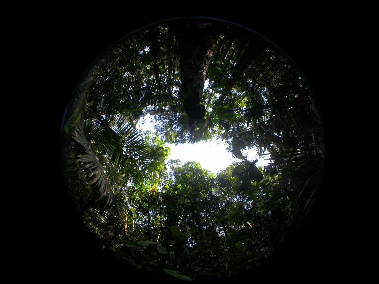 Tree fall gaps in the Amazon give way to sunlight. Photo courtesy of Irina Skinner